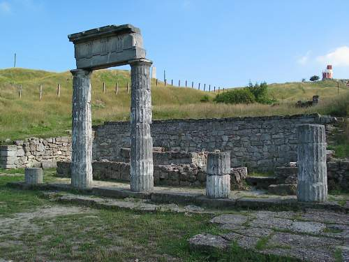 Ruins of Prytaneion of Panticapaeum, II b.c.. Kerch, Ukraine